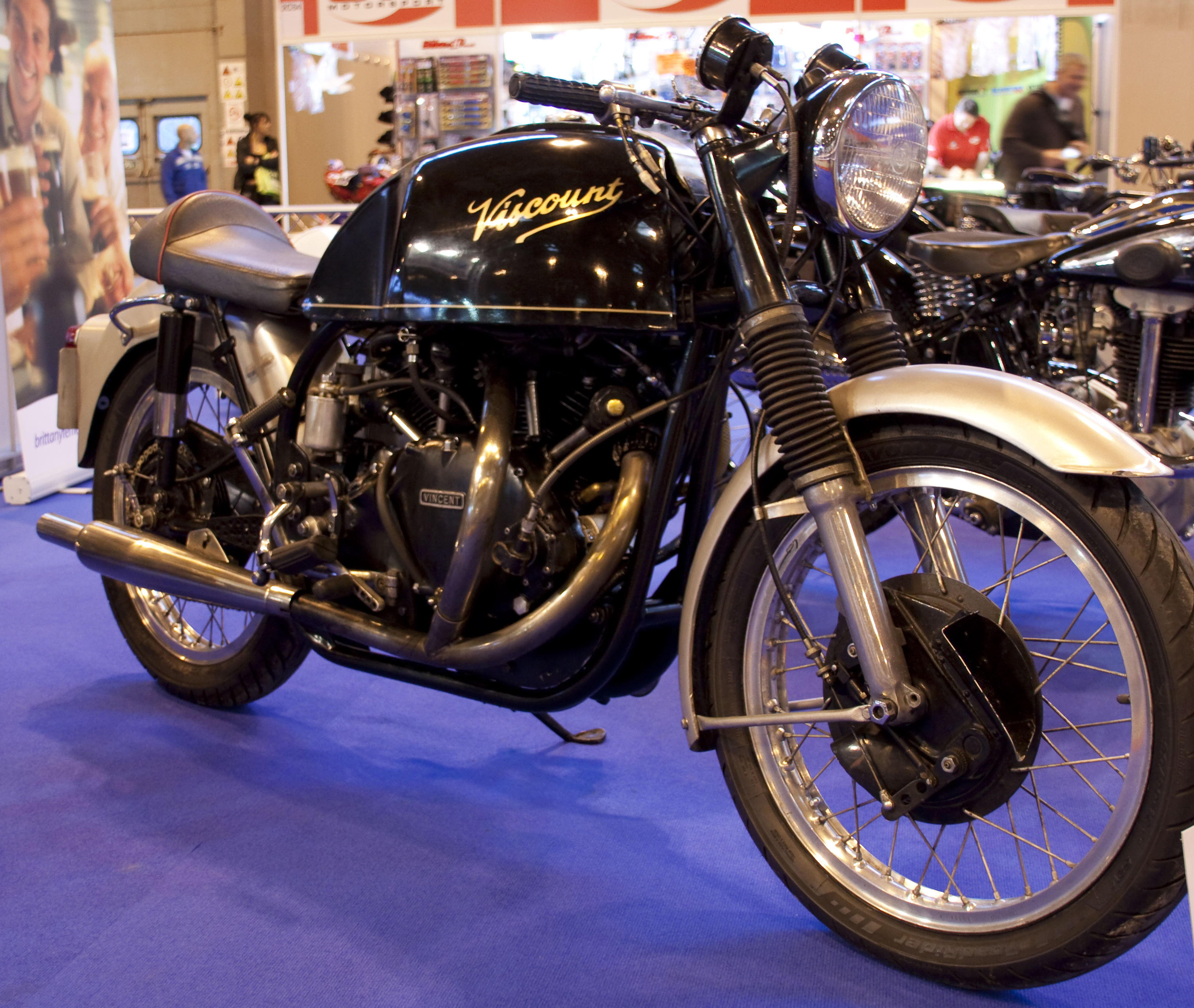 Somerton Viscount 998cc 1959